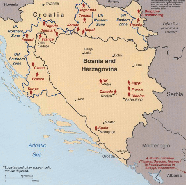 Map of deployment of National Battalions in UN Forces in Croatia and Bosnia and Herzegovina - Early 1993 (Balkan Battlegrounds Map I)